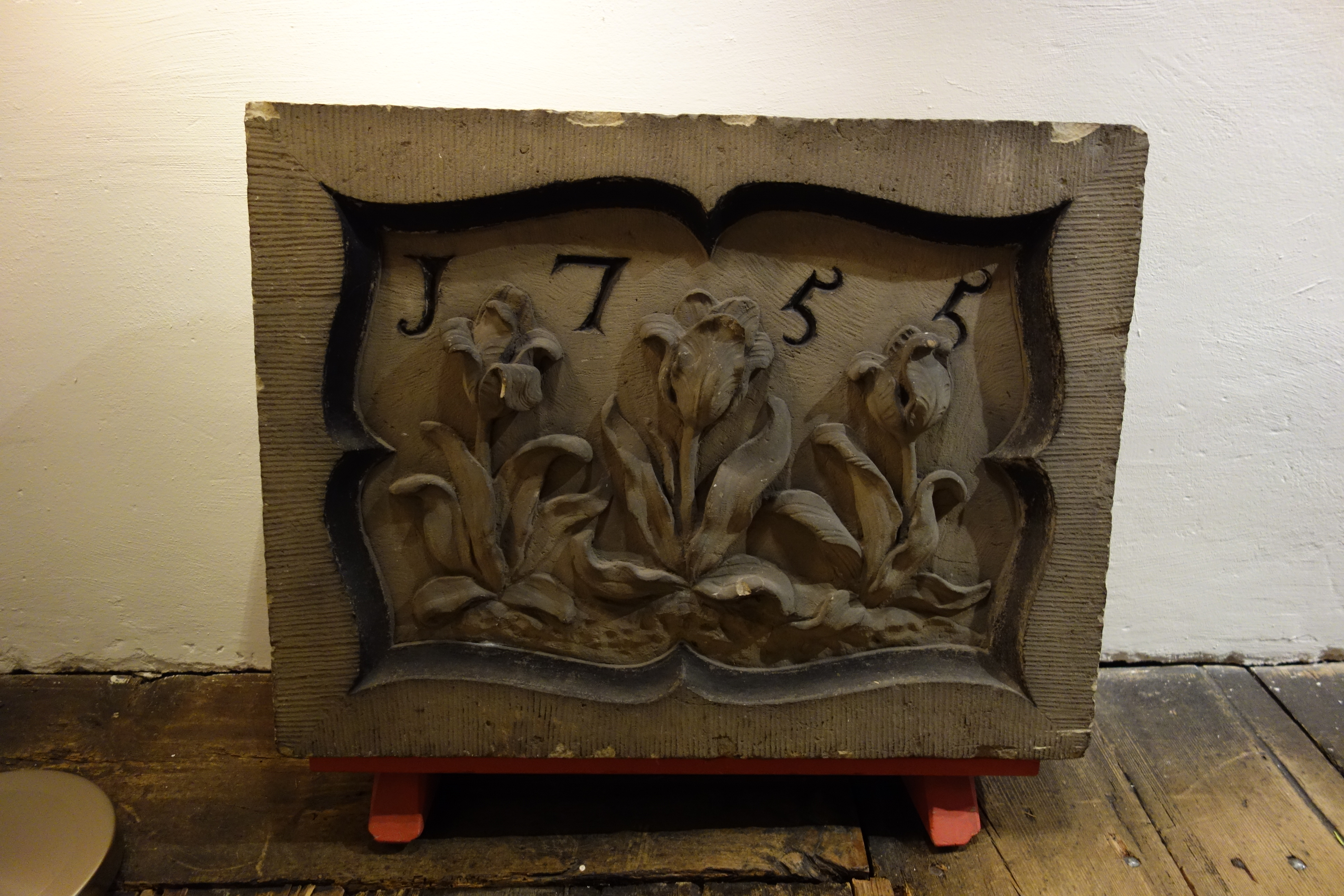 Original gable stone of the destroyed clandestine church De Drie Tulpen in Hoorn.